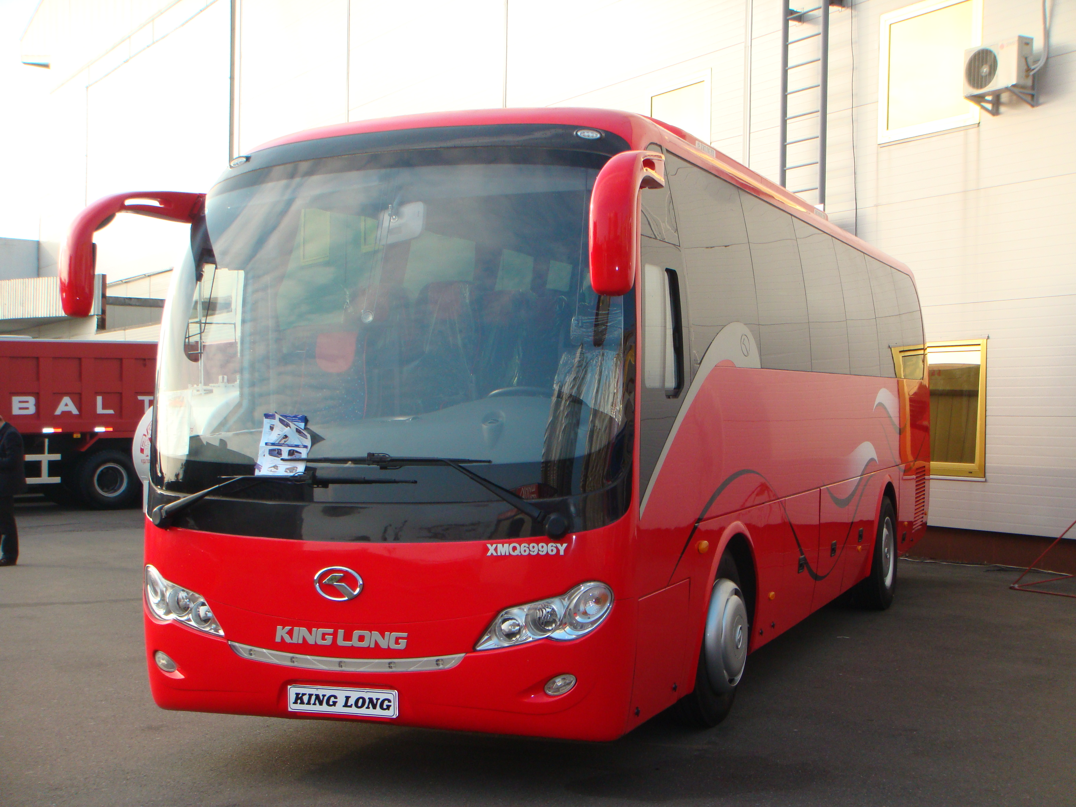 King Long XMQ6996Y coach in Kiev, Ukraine.